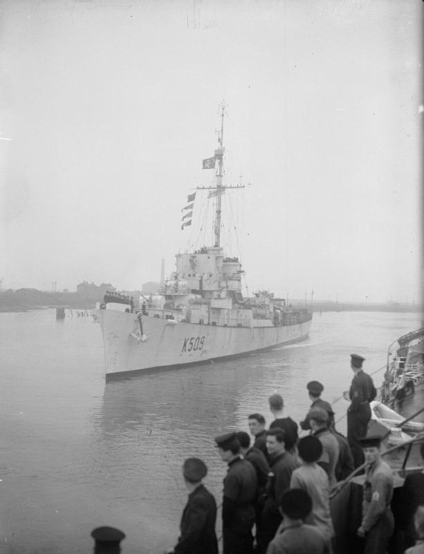 IWM caption : HMS CONN, Senior Officer's Ship of the 21st Escort Group, coming into berth at Belfast flying the Group's Jolly Roger flag indicating success after sinking three German U-Boats and a possible fourth.